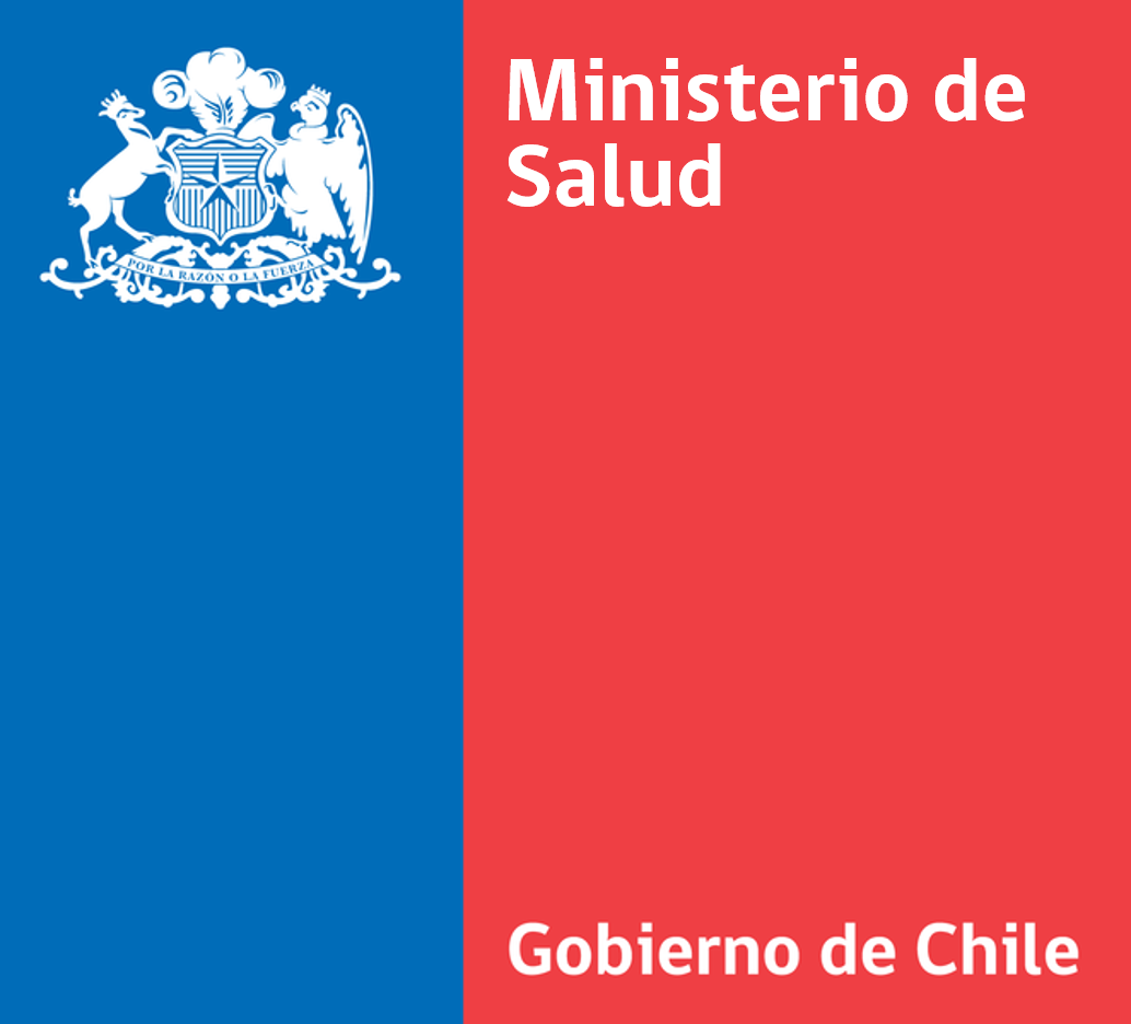 Logo Government of the Ministry of Health.